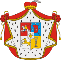 Coats of arms of the princely family of "Cherkassy"